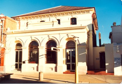 Commercial Bank of Australia Building, Armidale: Front of former CBA Bank Armidale (former Telegraph Office). Image is from 1985, showing the building with infilling to portico consisting of rendered cement bases to windows, and metal framed glazed doors.